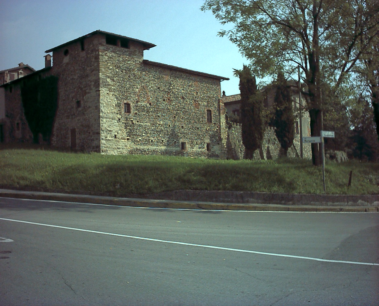 Castle Marigolda, Curno, Lombardy, Italy